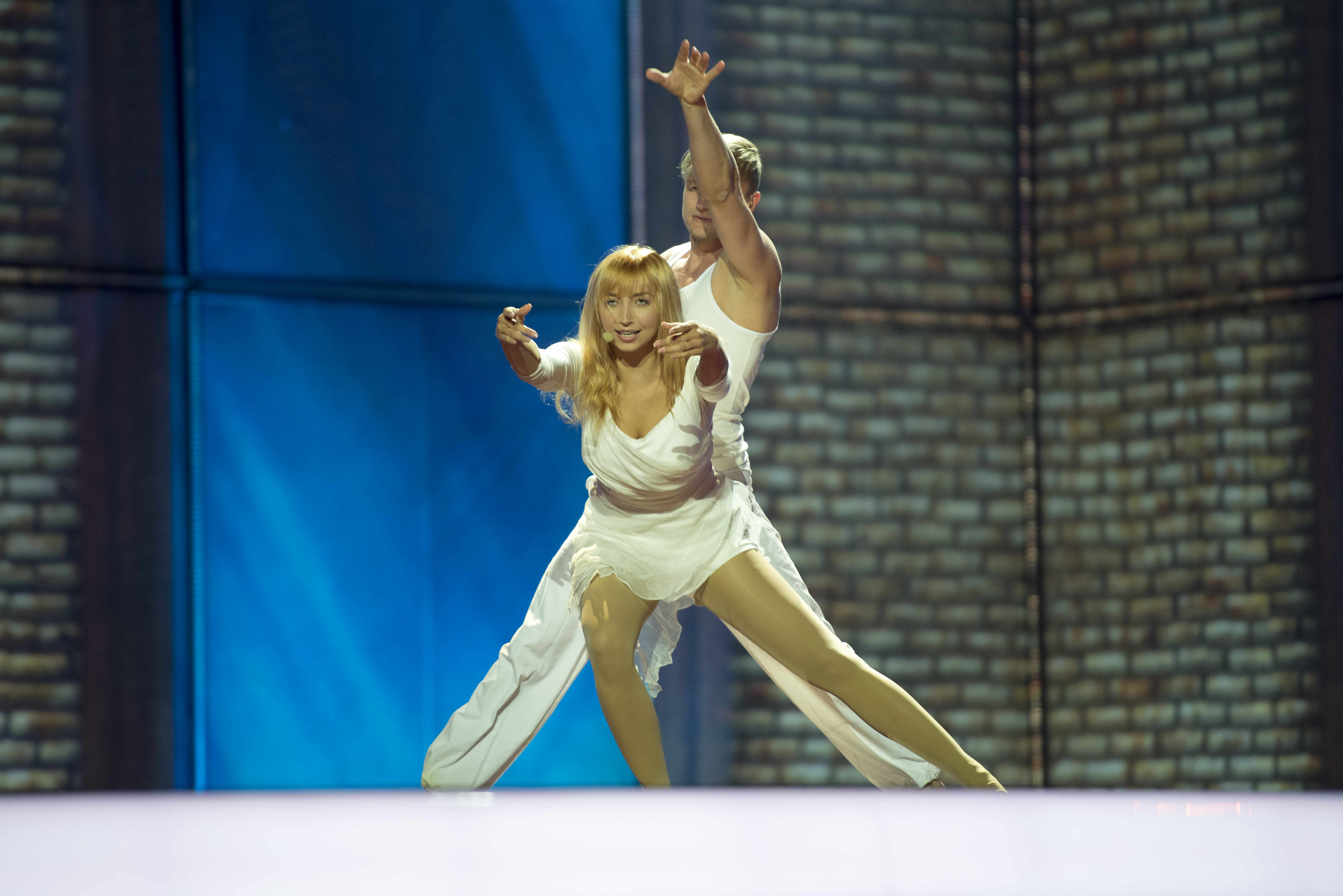 Tanja Mihhailova representing Estonia with the song "Amazing" during the first dress rehearsal of the first semi final of the Eurovision Song Contest 2014 Copenhagen. (Help translate this text)